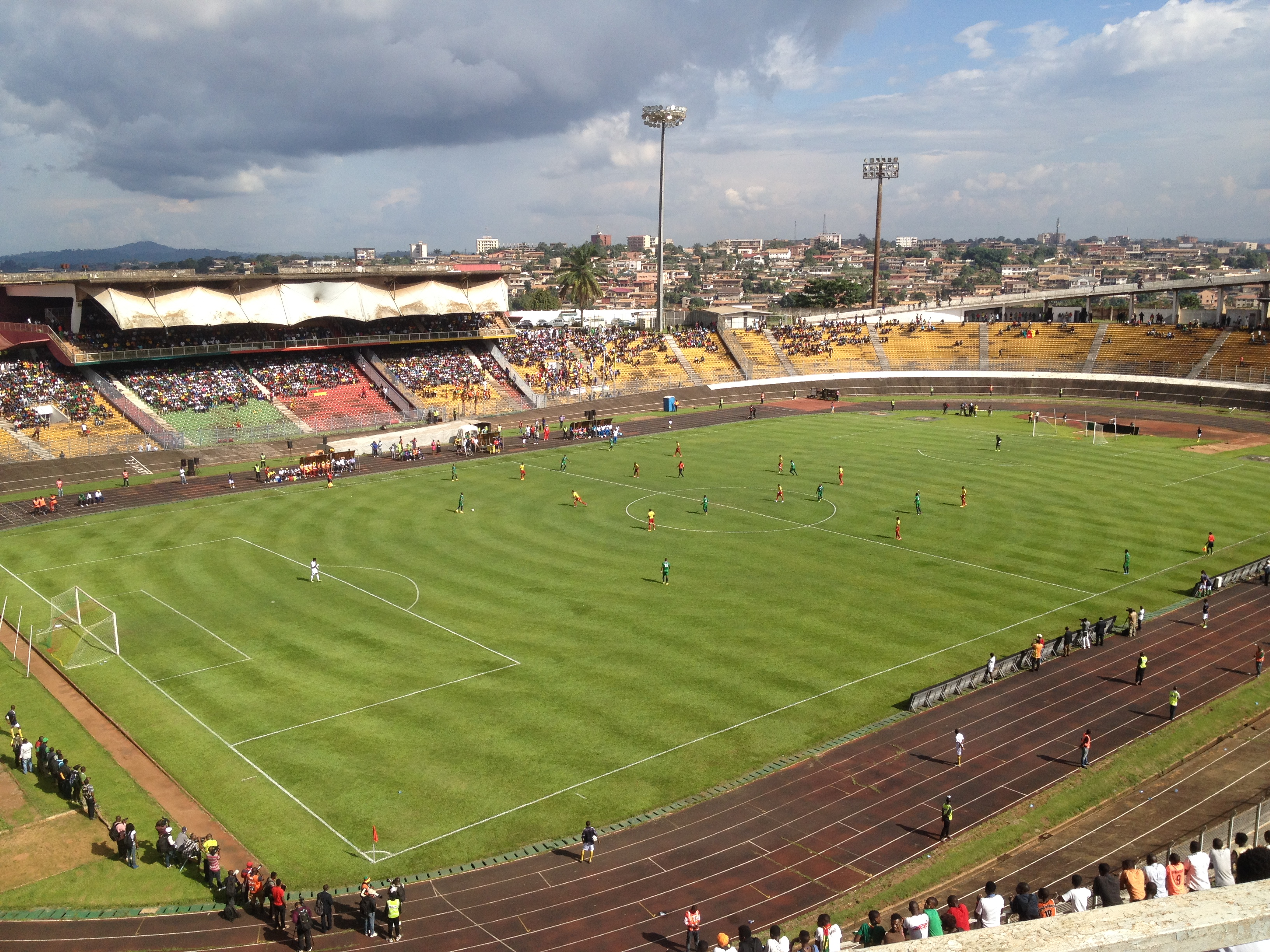 Ahmadou Ahidjo Stadion in Yaounde during a match between the national football team of Cameroon with the national football team of Sierra Leone (qualifications match for the African Cup of Nations 2015).